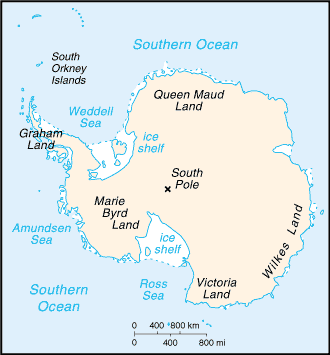 A map of Antartica, showing major areas of interest.